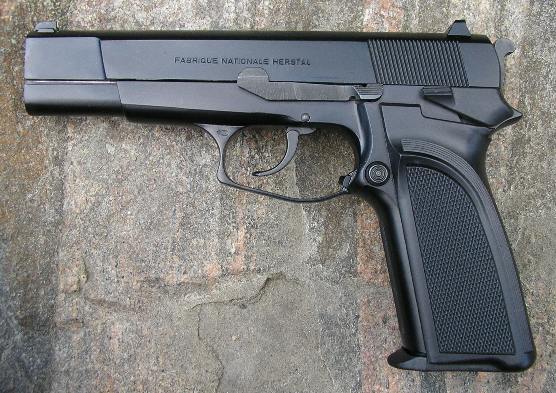 9mm FN Browning BDA-9 later production model.